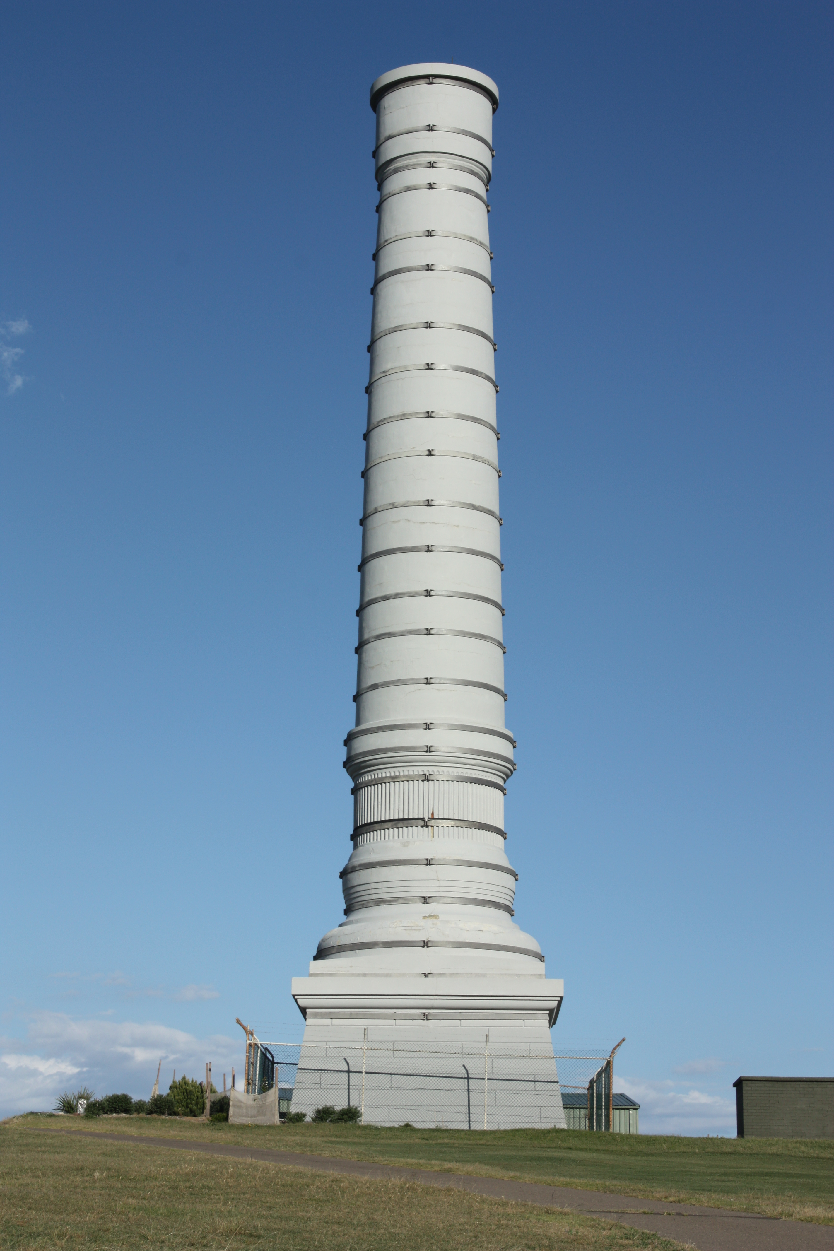 Sewer vent at Bondi North golf course.